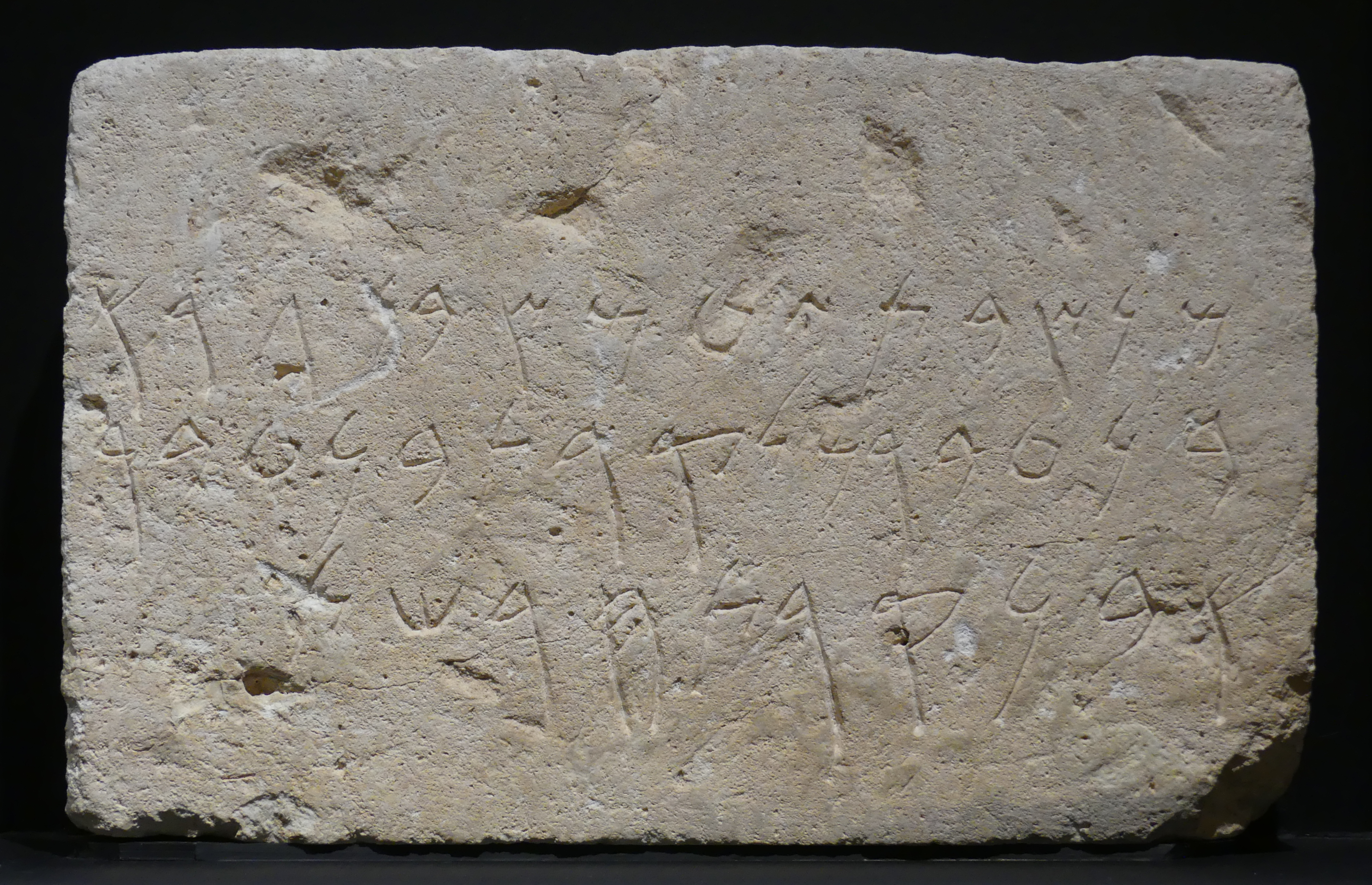 "Stela with Phoenician inscriptions of Y'ms dated to the 4th c. B.C. Limestone Tyre Iron Age III (550-333 B.C.) Stela of Y'ms son of Gr', son of 'bdmlqrt, son of 'bd' son of Carthage" On display at the National Museum of Beirut, Lebanon